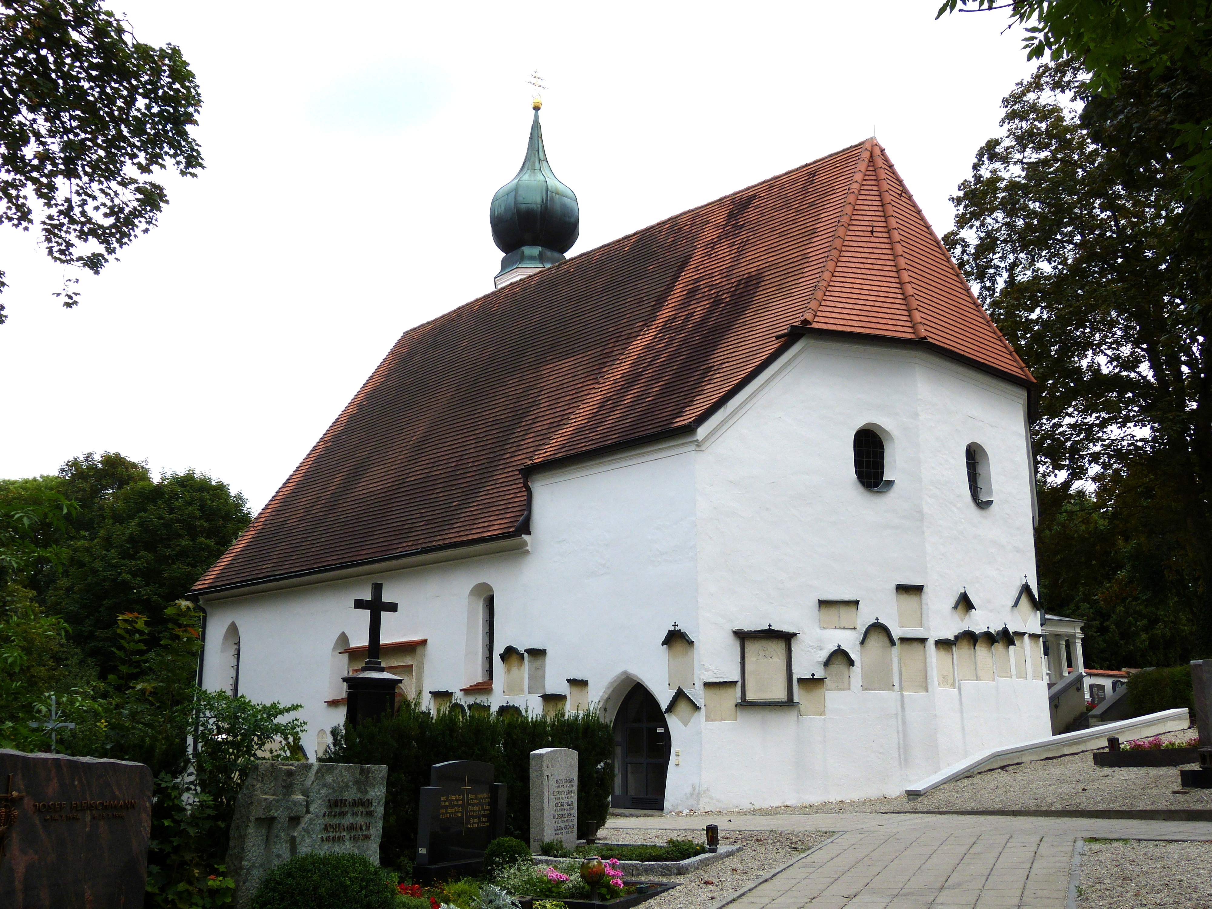 Landau an der Isar ( Lower Bavaria ). Cemetery church of the Holy Cross.